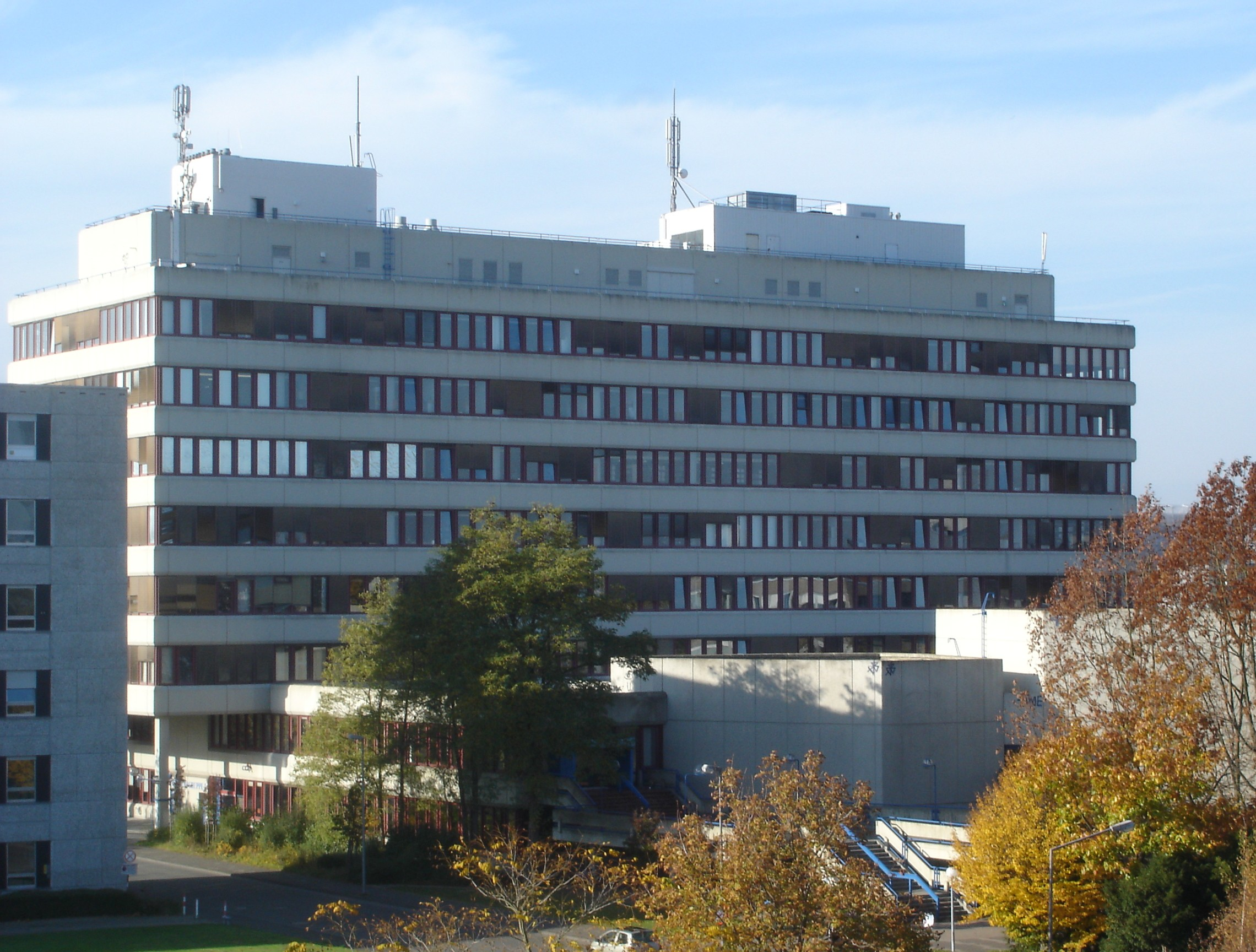 University of Muenster (Westphalia), Germany (physics-building)